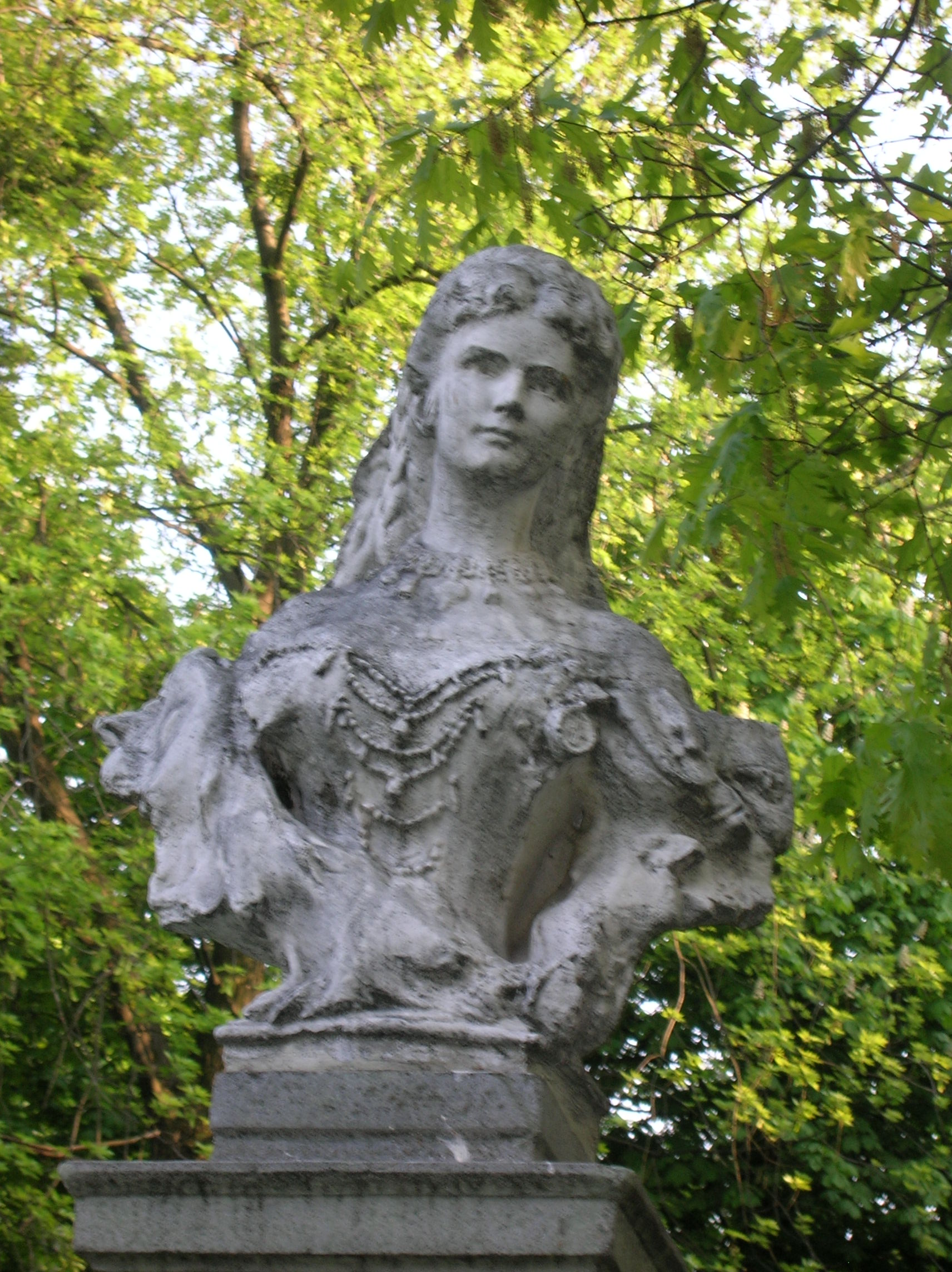 Statue of Queen Elisabeth ("Sissi") in the Népkert public park, Miskolc, Hungary. Replica of the first statue that was erected to her in Hungary in 1899. (sculptor: Alajos Stróbl)